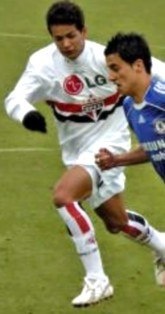 Lazaro Luan SCapolan